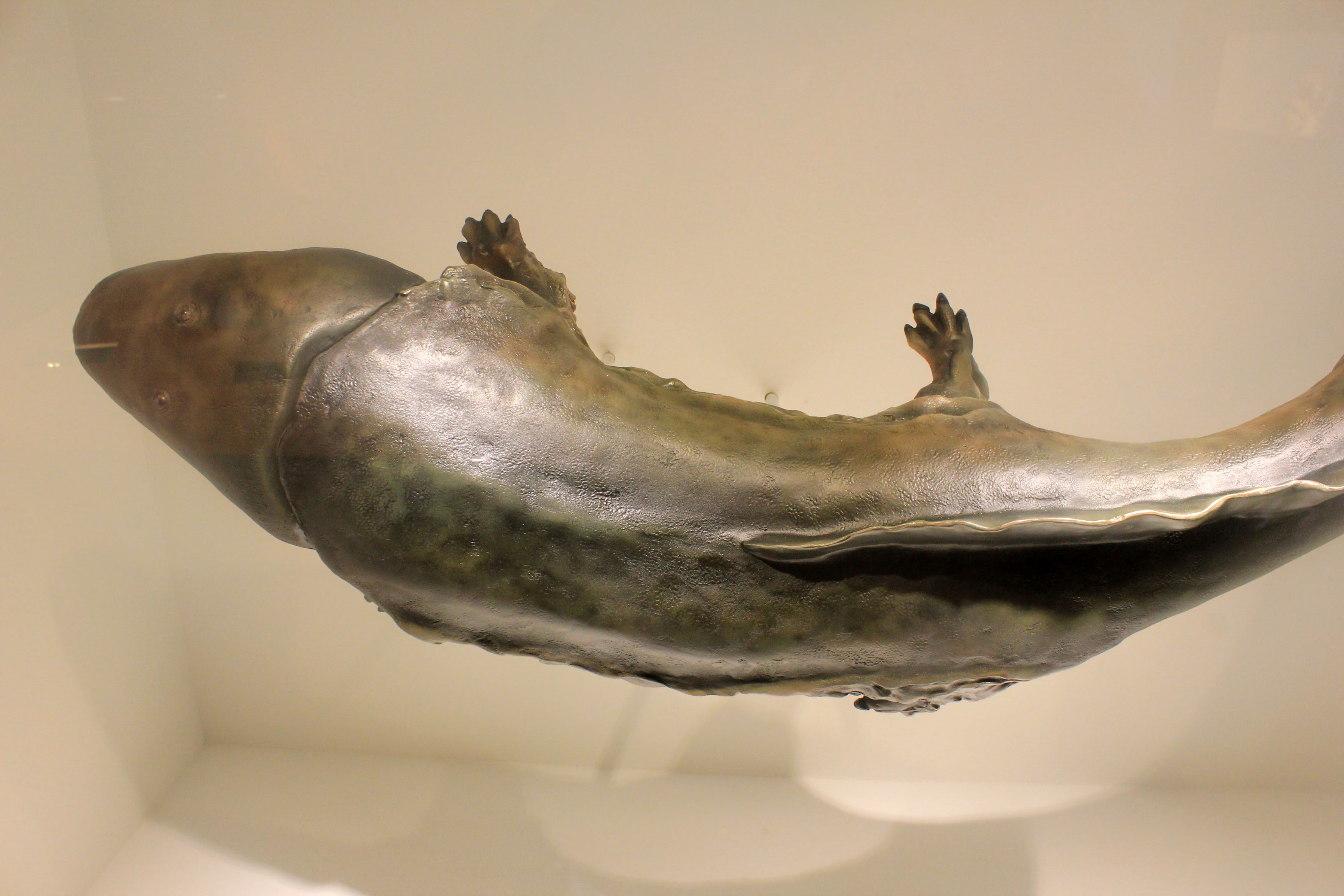 Extinct prehistoric animals. These are model and recreations. I can't give you the real thing because well, they're dead. — An early amphibian species